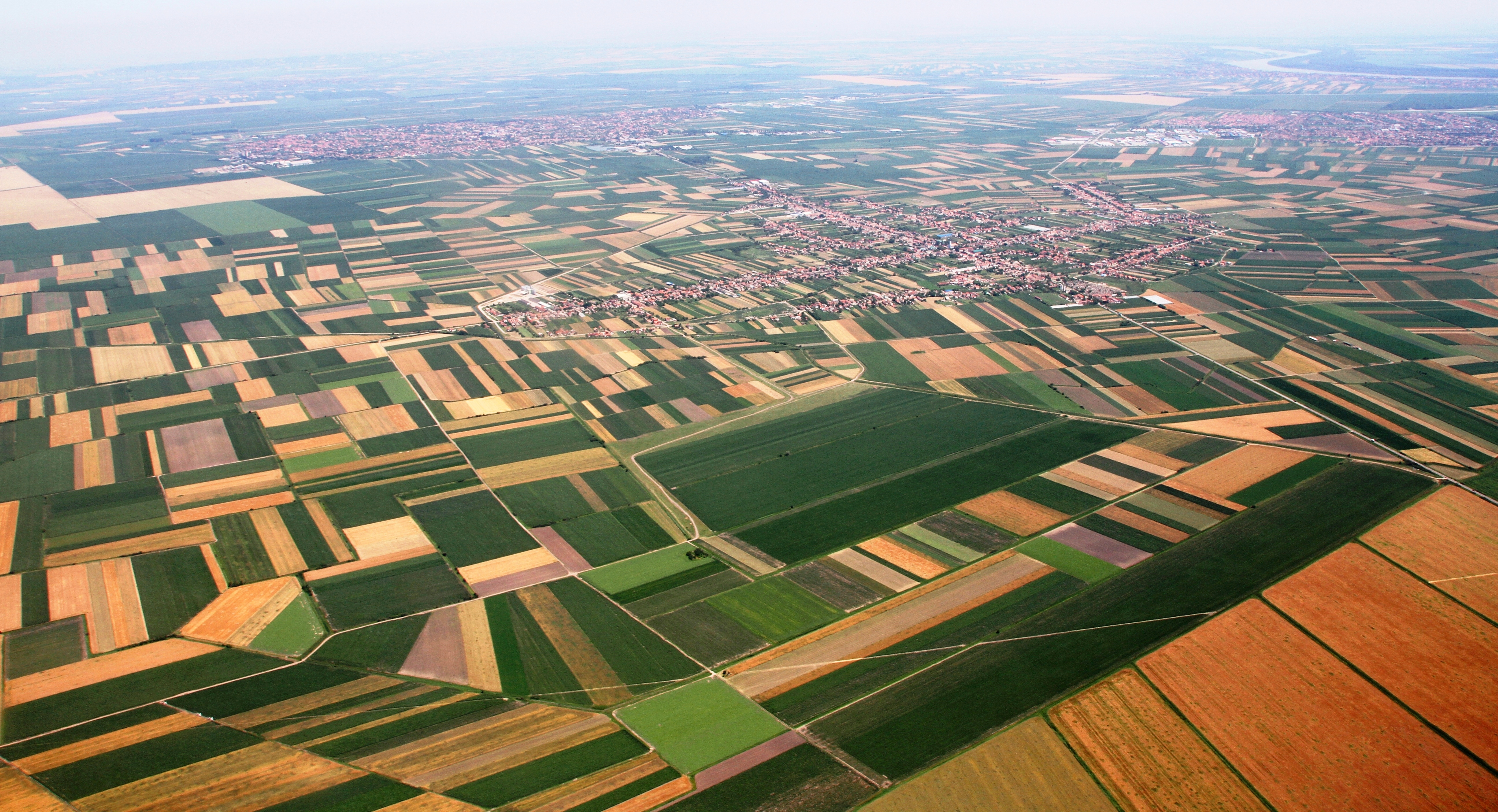 Aerial view from west towards east, of Vojka in Srem, Vojvodina (Serbia)